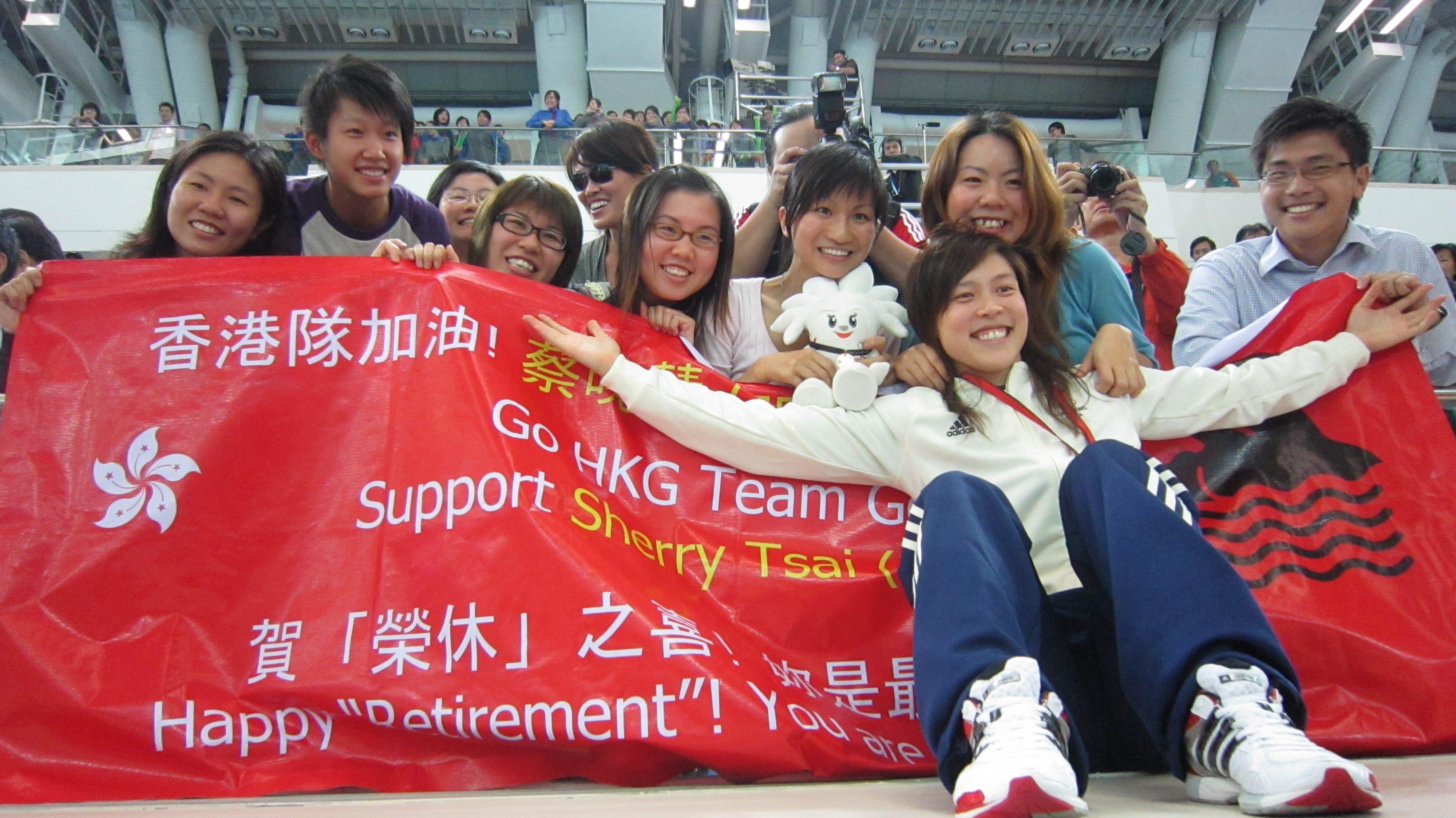 Hong Kong East Asian Games